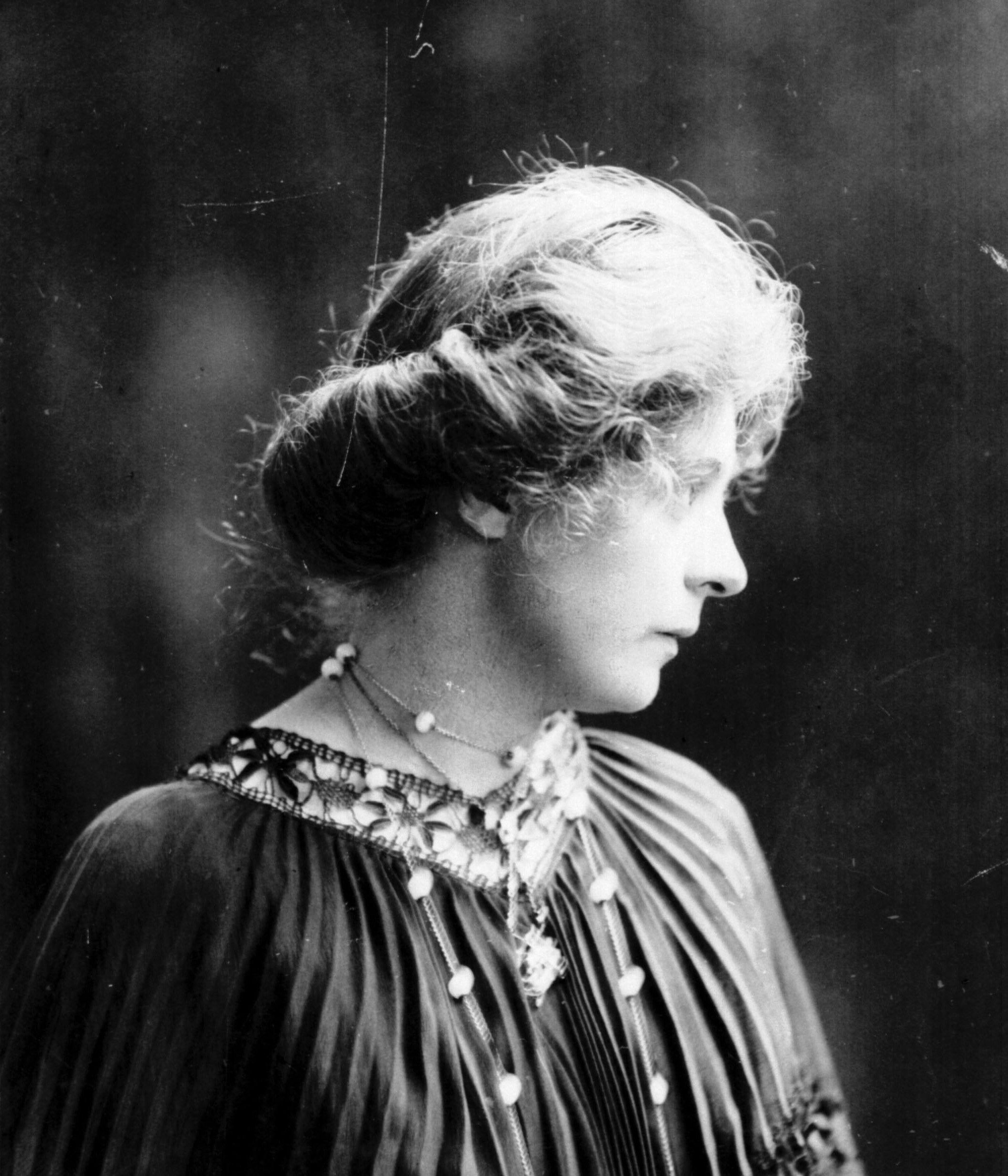 Artist: Herm. Hanmqvist, Stockholm Date/place:1905 Subject: Maria Kröyer Medium: photographic positive, B&W Notes: Written under the photo: "Edvard og NIna Grieg Maria Kröyer ihukommelse [uleselig] 1905". (Edvard and Nina Grieg Maria Kröyer in memory [unreadable] 1905. Persistent URL: [#//bergenbibliotek.no/digitale-samlinger//engelsk/-intro-eng” Original belongs to the Edvard Grieg Archives at Bergen Public Library] Original reference: EGM0079